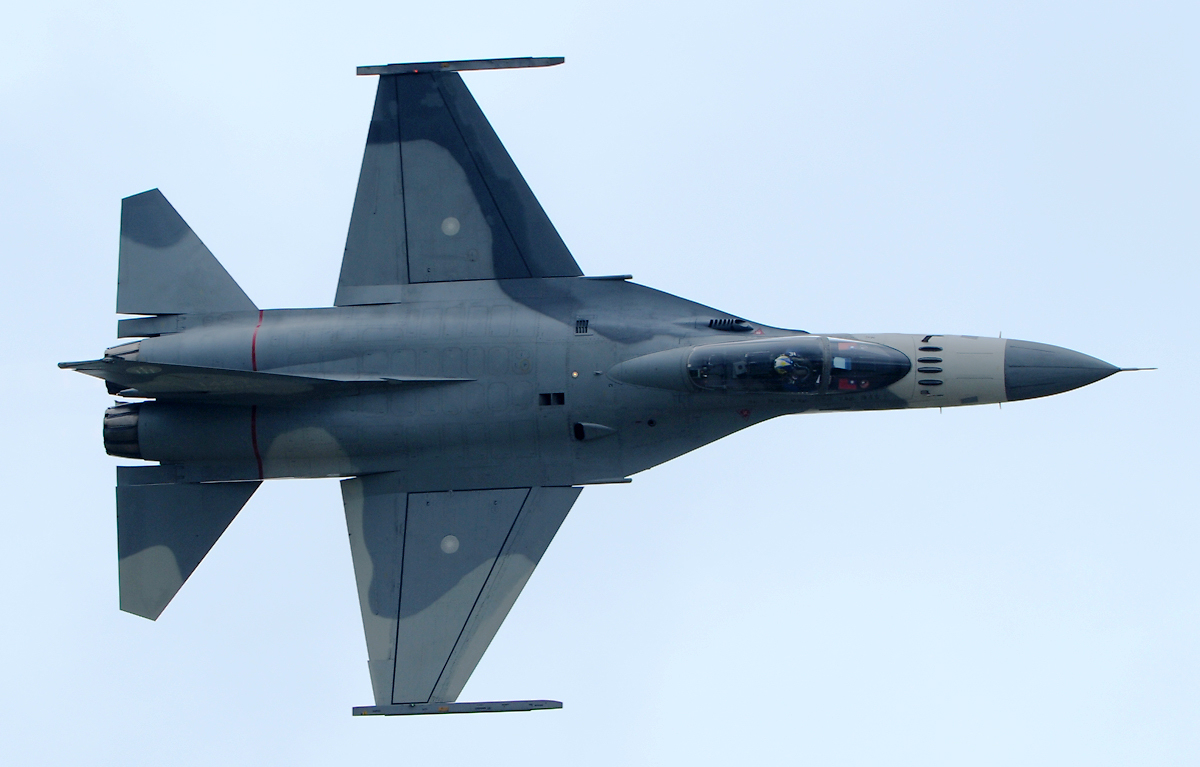 Republic of China Air Force AIDC F-CK-1A Ching Kuo